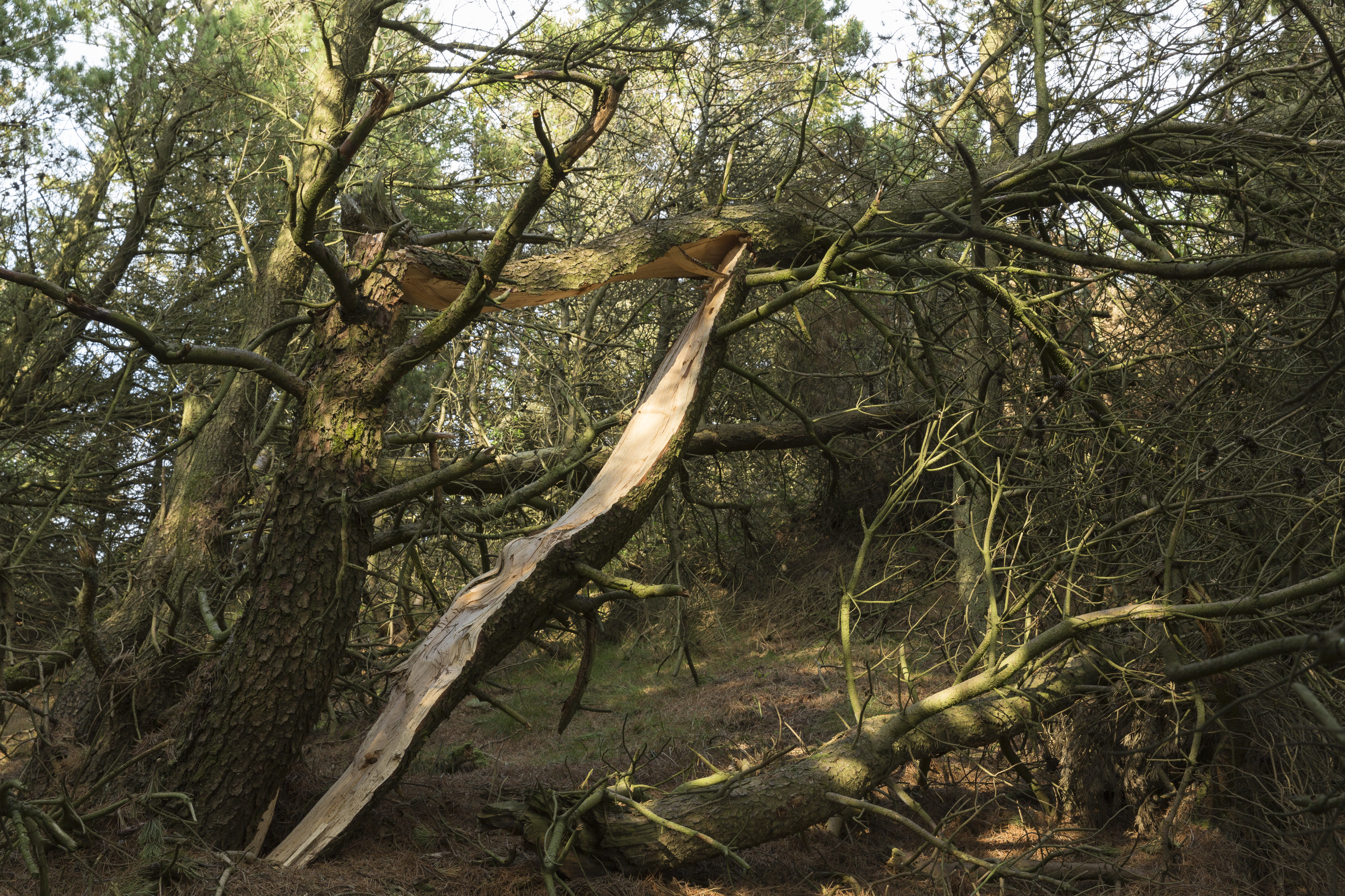 Storm dropped trees in Tversted Plantage at Skiveren